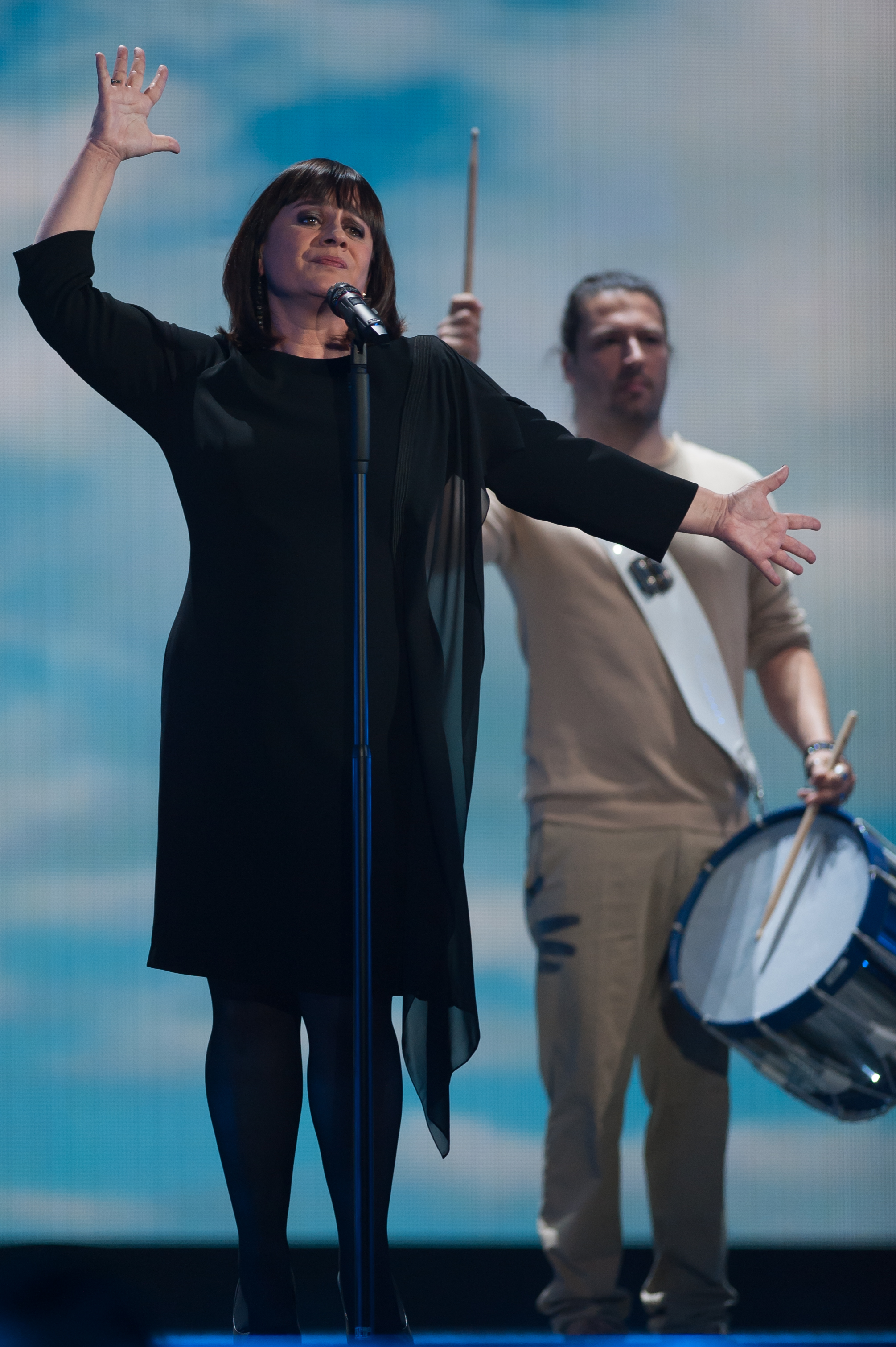 Eurovision Song Contest Vienna 2015: Lisa Angell